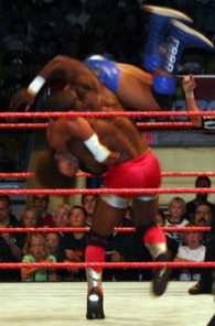 Shelton Benjamin hits the T-Bone Suplex on Carlito during a WWE house show held in Kitchener, Ontario, Canada on January 15, 2005.